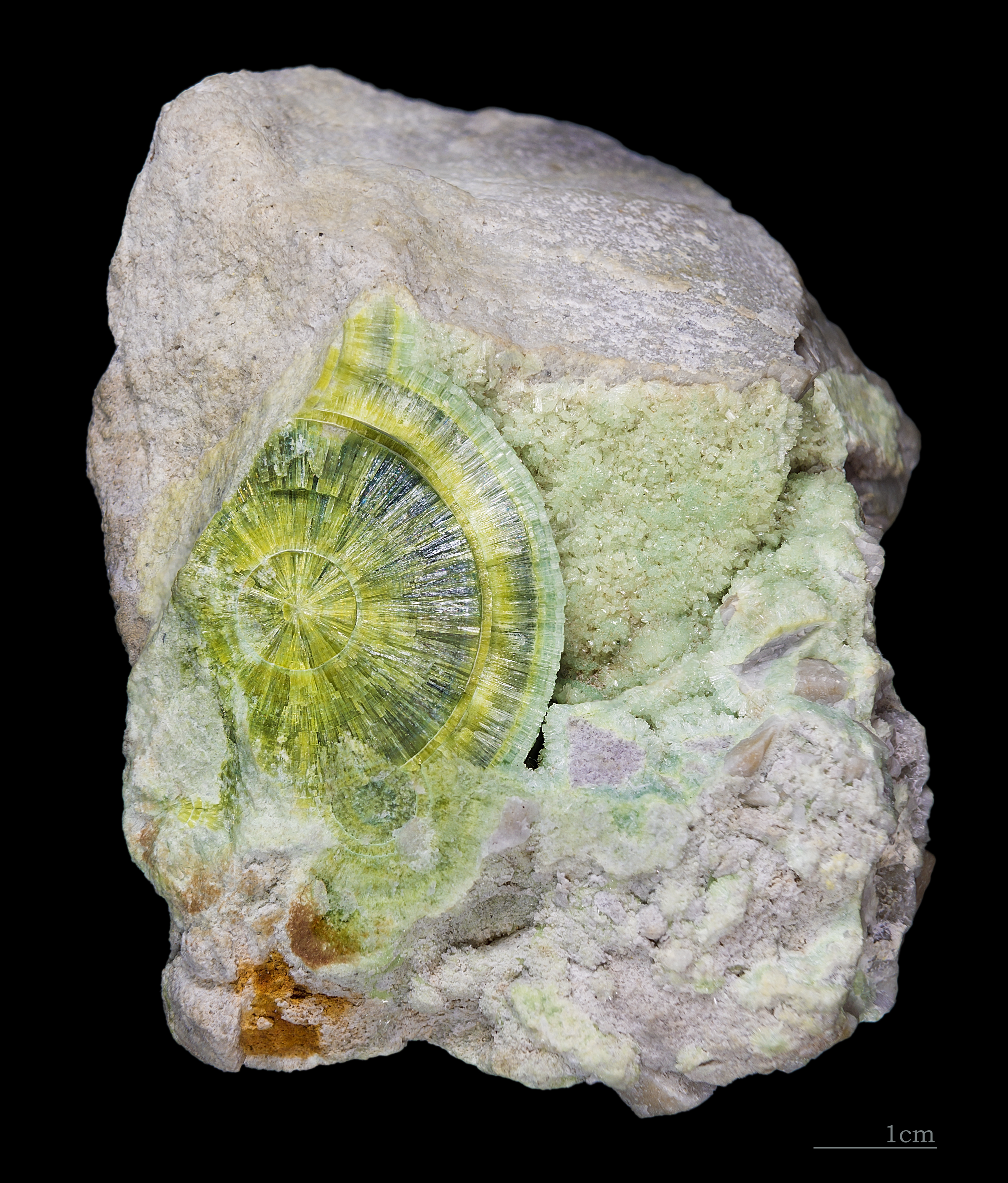 Crystals of Wavellite.